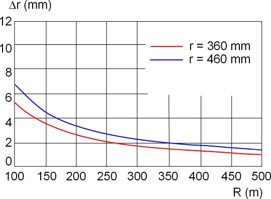 The figure shows the difference in radii depending from the curvature by which the wheel set moves without slip through the curve